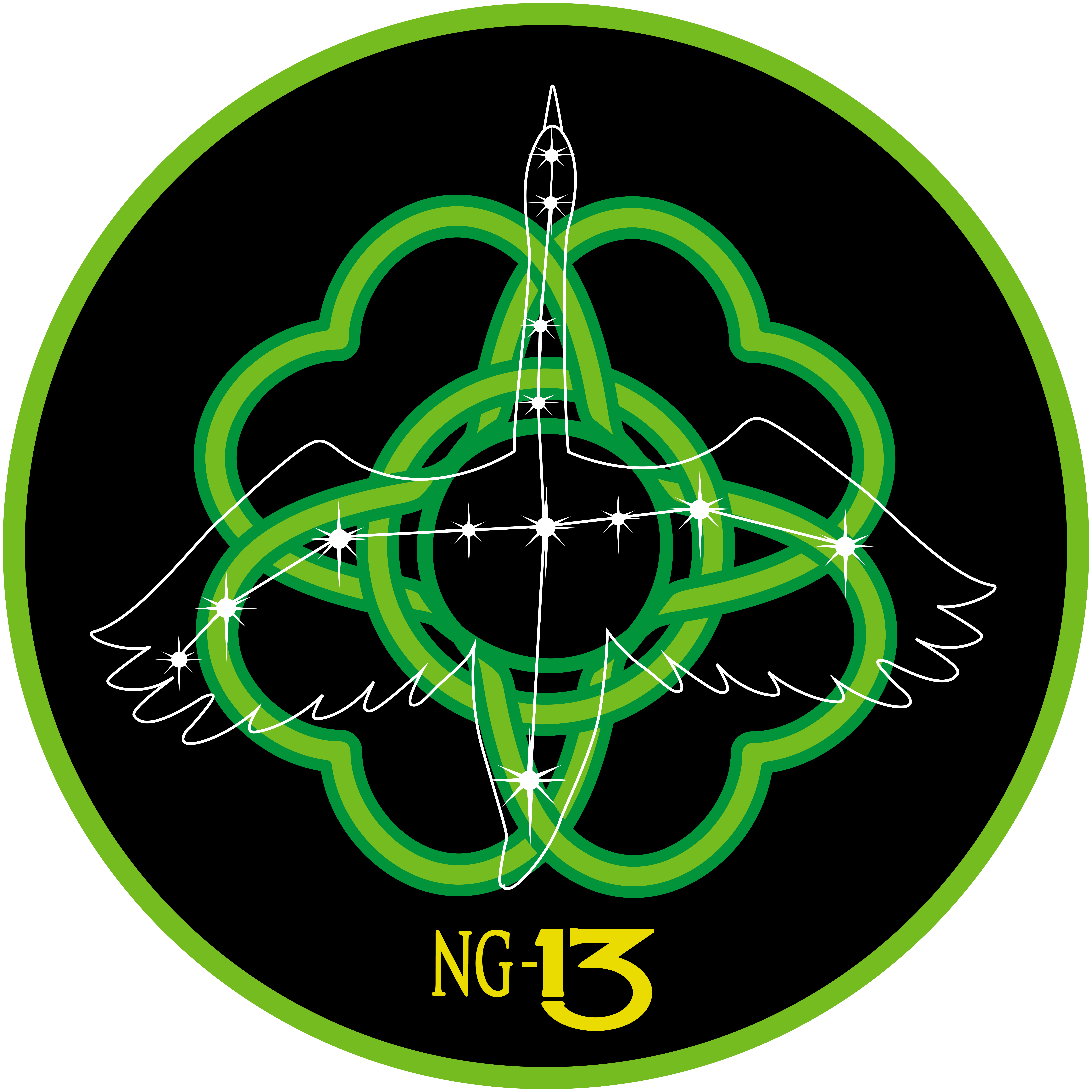 NASA logo for Northrop Grumman's NG-13 Cygnus, the second Commercial Resupply Services (CRS)-2 mission